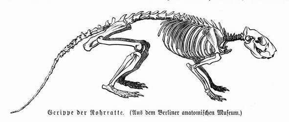 The skeleton of Thryonomys swinderianus (Aulacodus swinderianus) - graphics from "Brehms Thierleben"